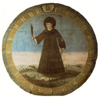 Coat of arms of the Uglich province. Tempera and primer on wood, 1730.